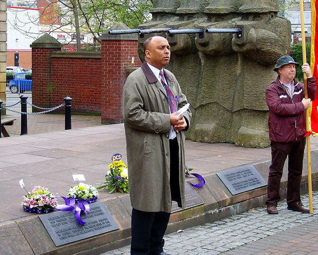 Preston MP Mark Hendrick at the Workers memorial day